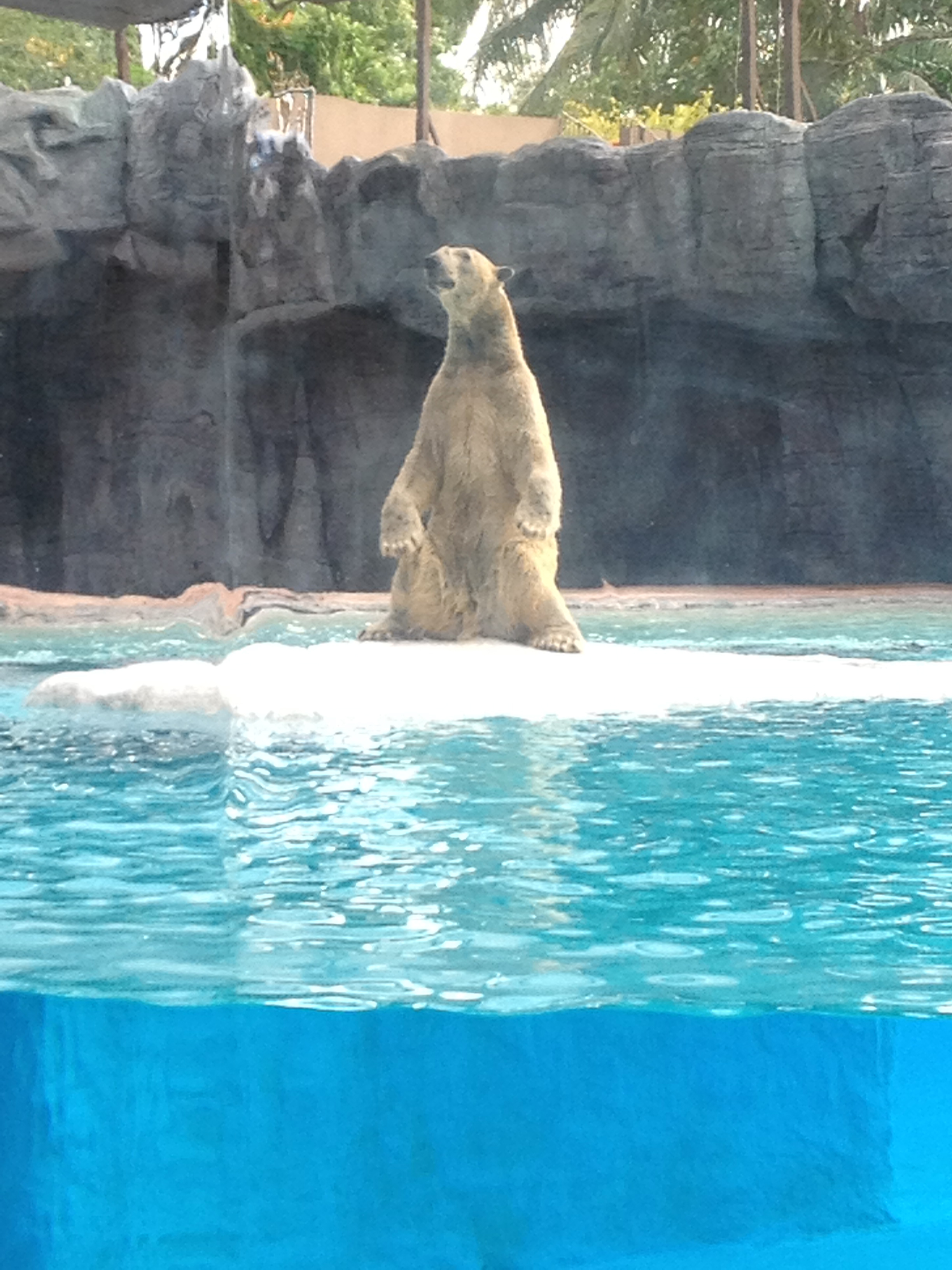 Inuka the polar bear, and the unofficial mascot of the Singapore Zoo.